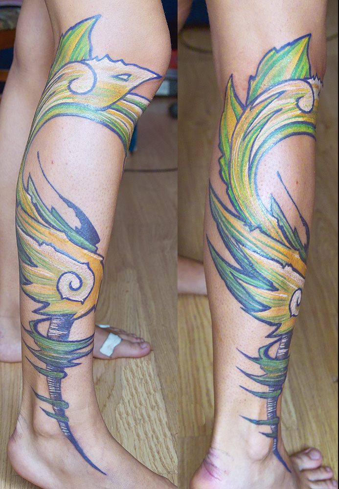 tattoo By Grisha maslov